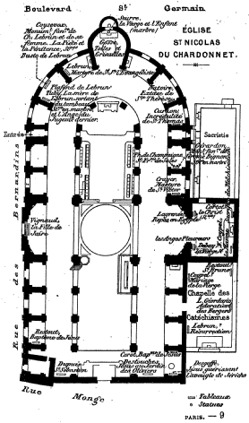 Paris, Sèvres, Saint-Cloud, Versailles, Saint-Germain, Fontainebleau Joanne, Paul (1847-1922), 1901 , page 129 plande Saint-Nicolas-du Chardonnet